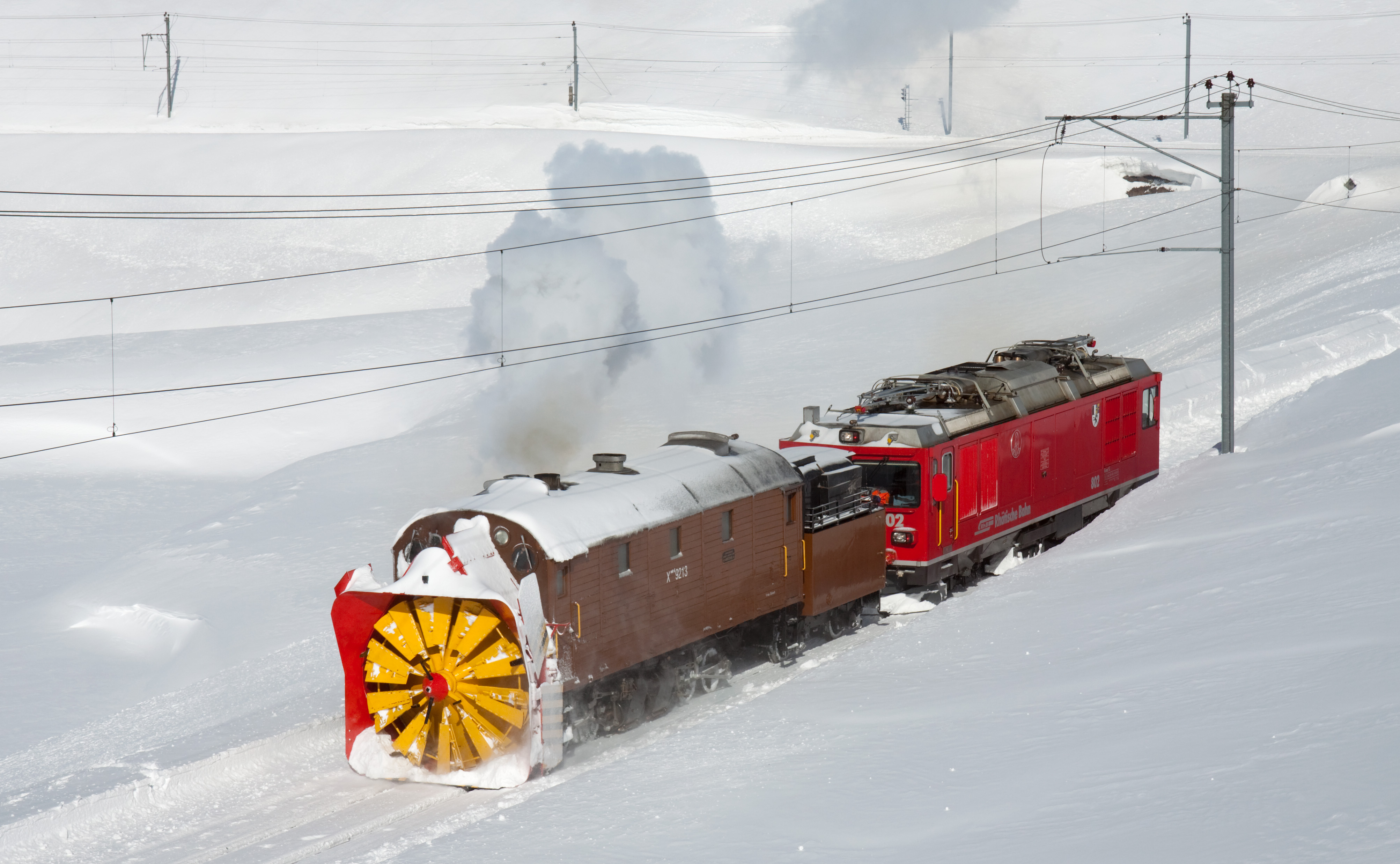 Rotary snowplow RhB Xrotd 9213 working on the Bernina Line at Lago Bianco, Switzerland. This picture was taken on a special event for photographers, but operations like this were common until the 1960s. Today the Xrotd is rarely used, when there's lots of snow to clear, and it's mainly kept for the pleasure of railfans. The pushing locomotive is a dual mode (diesel and electric) Gem 4/4.